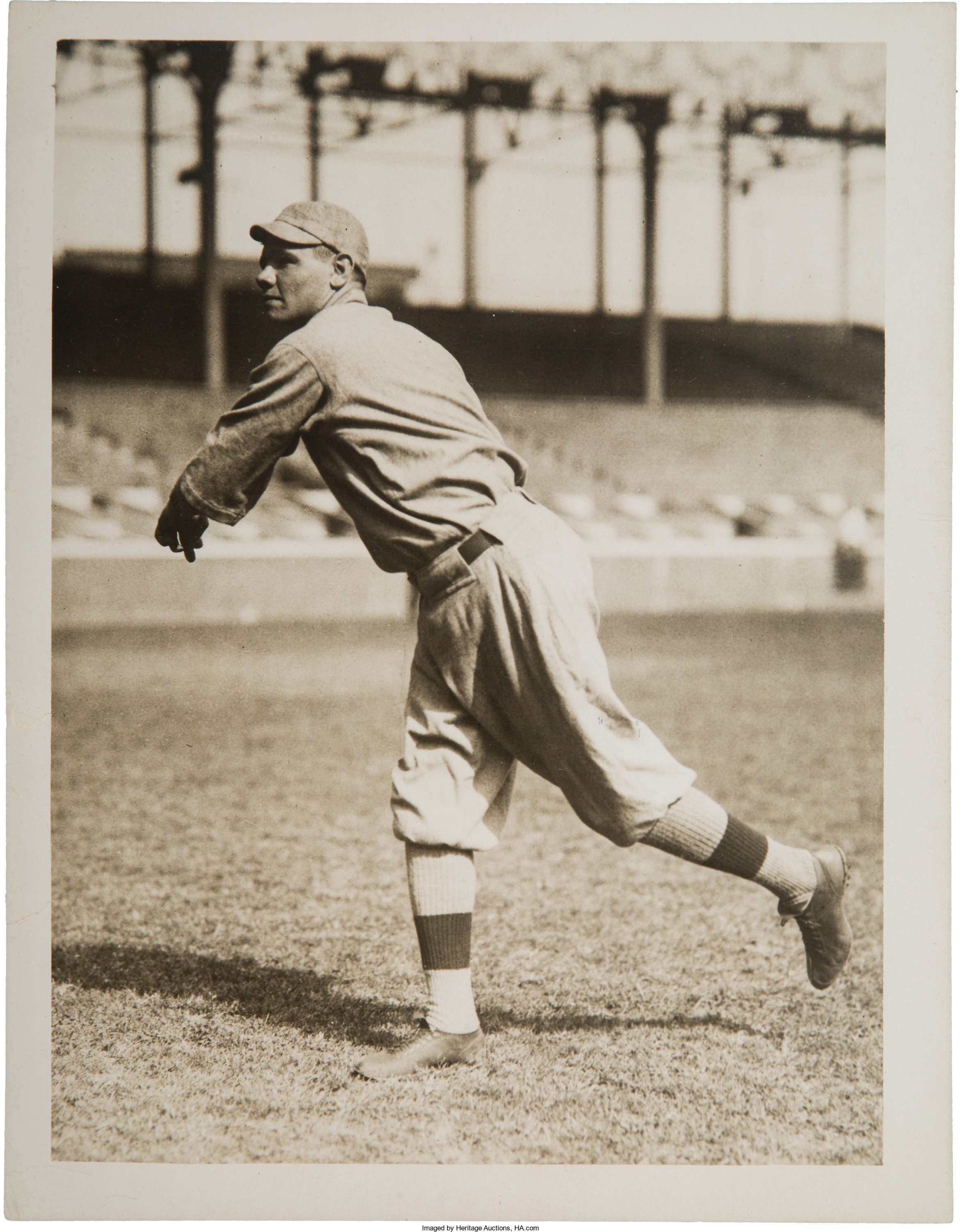 Babe Ruth rookie-era original photograph showing Ruth in uniforn warming up before a game